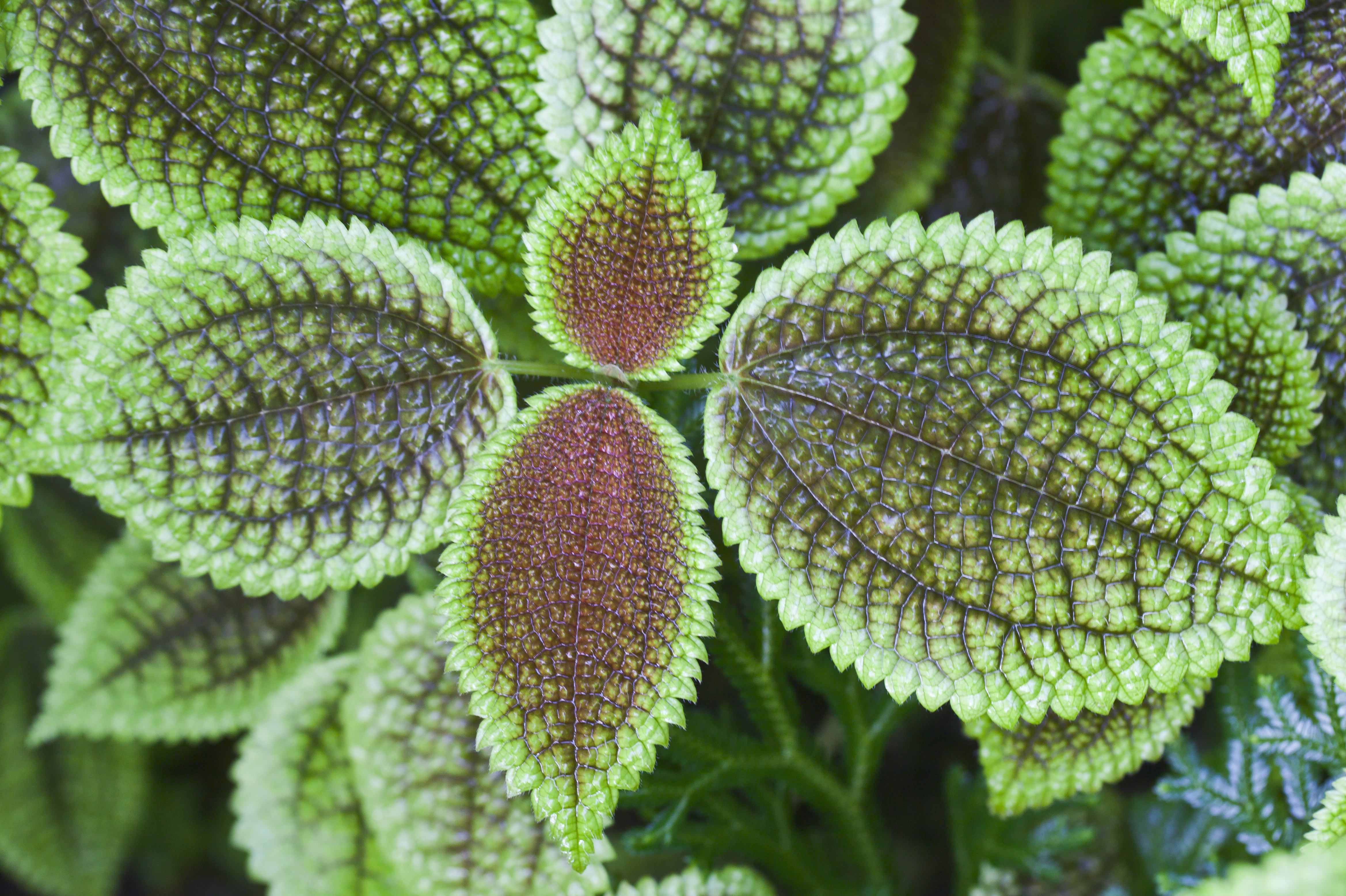 Solenostemon scutellarioides, Munich Botanic Garden, Germany